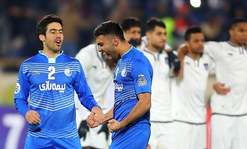 AFC Champions League qualifying play-off, Esteghlal Al-Sadd, Azadi Stadium